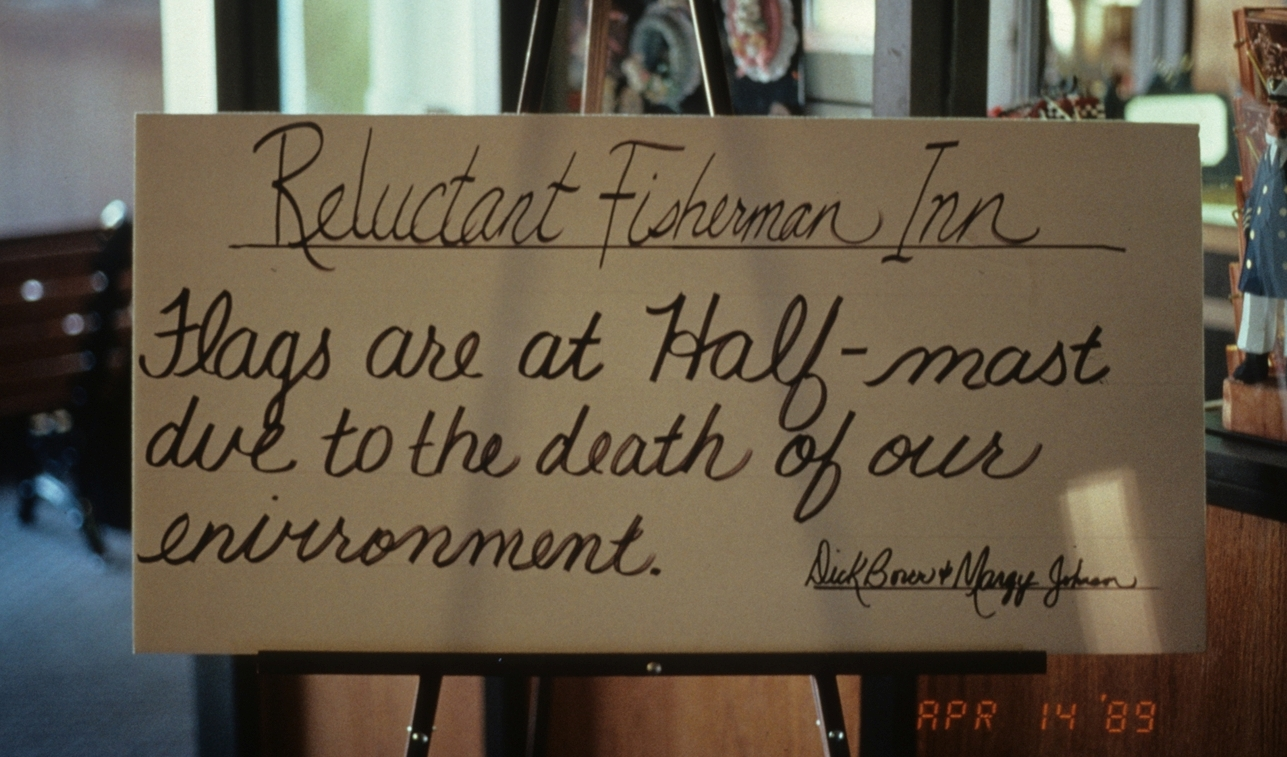 Sign at the Reluctant Fisherman Inn in Cordova, Alaska, lamenting the damage to Cordova's fisheries in the wake of the Exxon Valdez Oil Spill. The co-proprietor of the Reluctant Fisherman, Margy Johnson, became a minor celebrity in Alaska during the 1990s due to her outspoken views related to the oil spill and the battle over connecting Cordova by road to the outside world, and later served as mayor of Cordova.